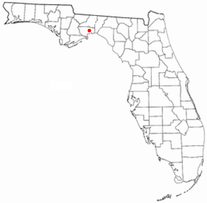 Created from other maps found on Wikipedia.